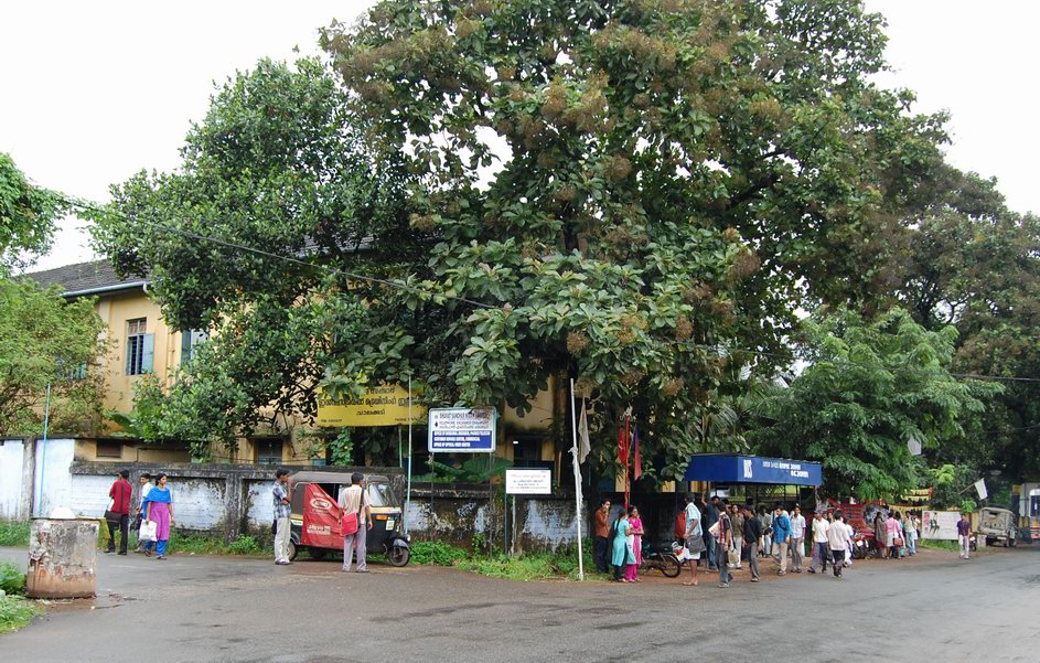 ITI, Chalakudy